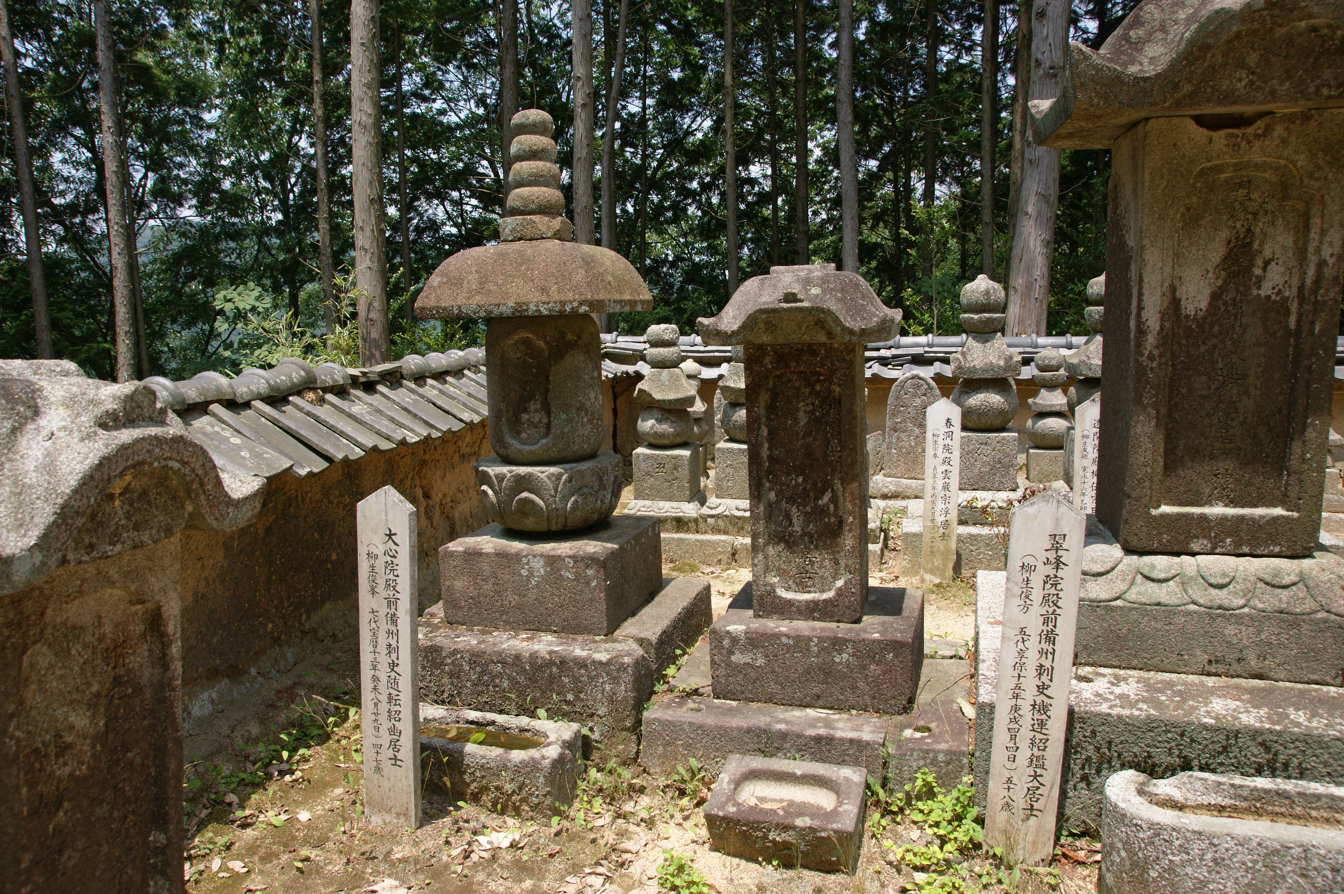 Hotokuji in Nara, Nara prefecture, Japan